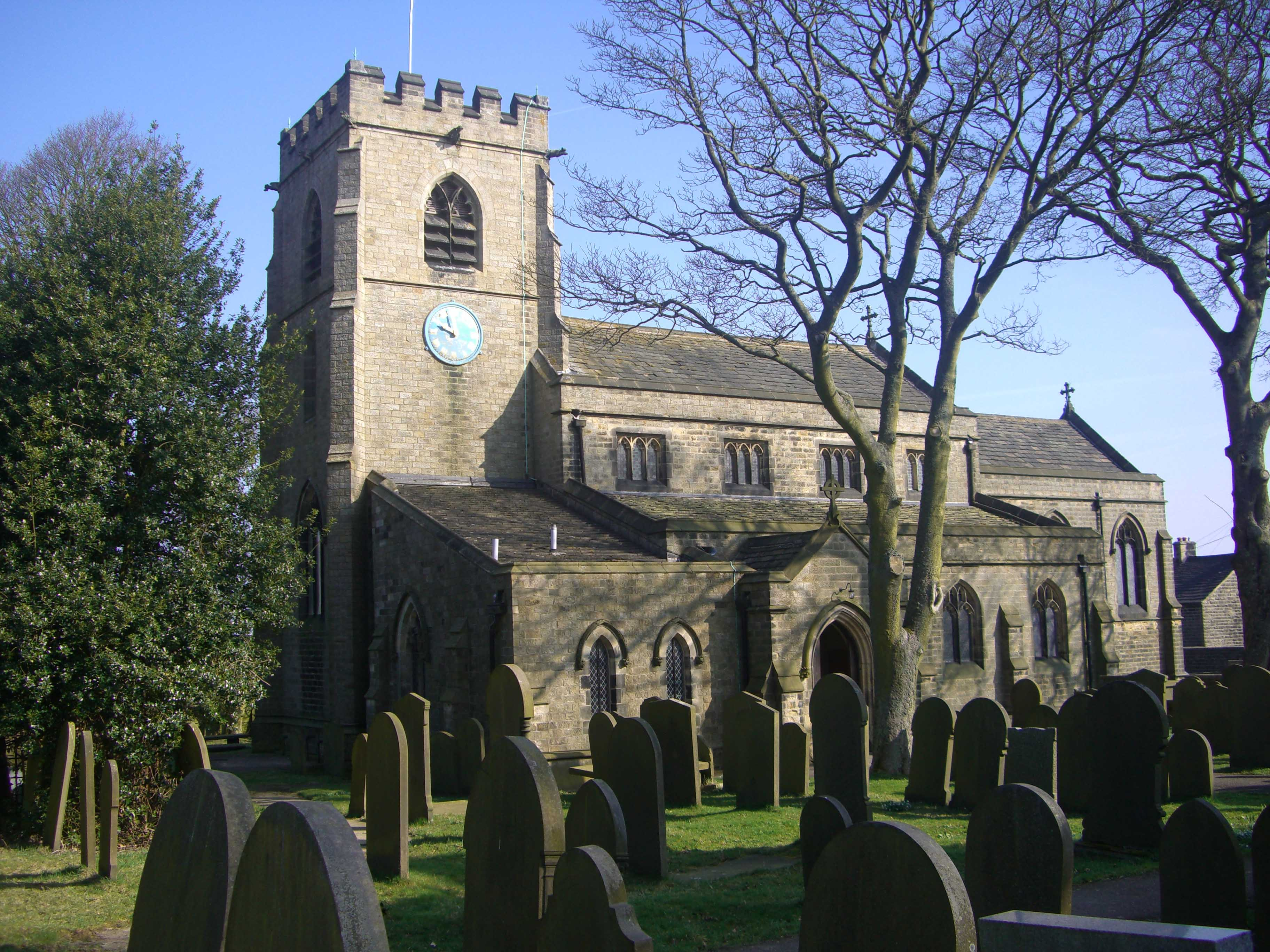 St Mary's parish church, Bolsterstone, near Sheffield, South Yorkshire, seen from the southwest